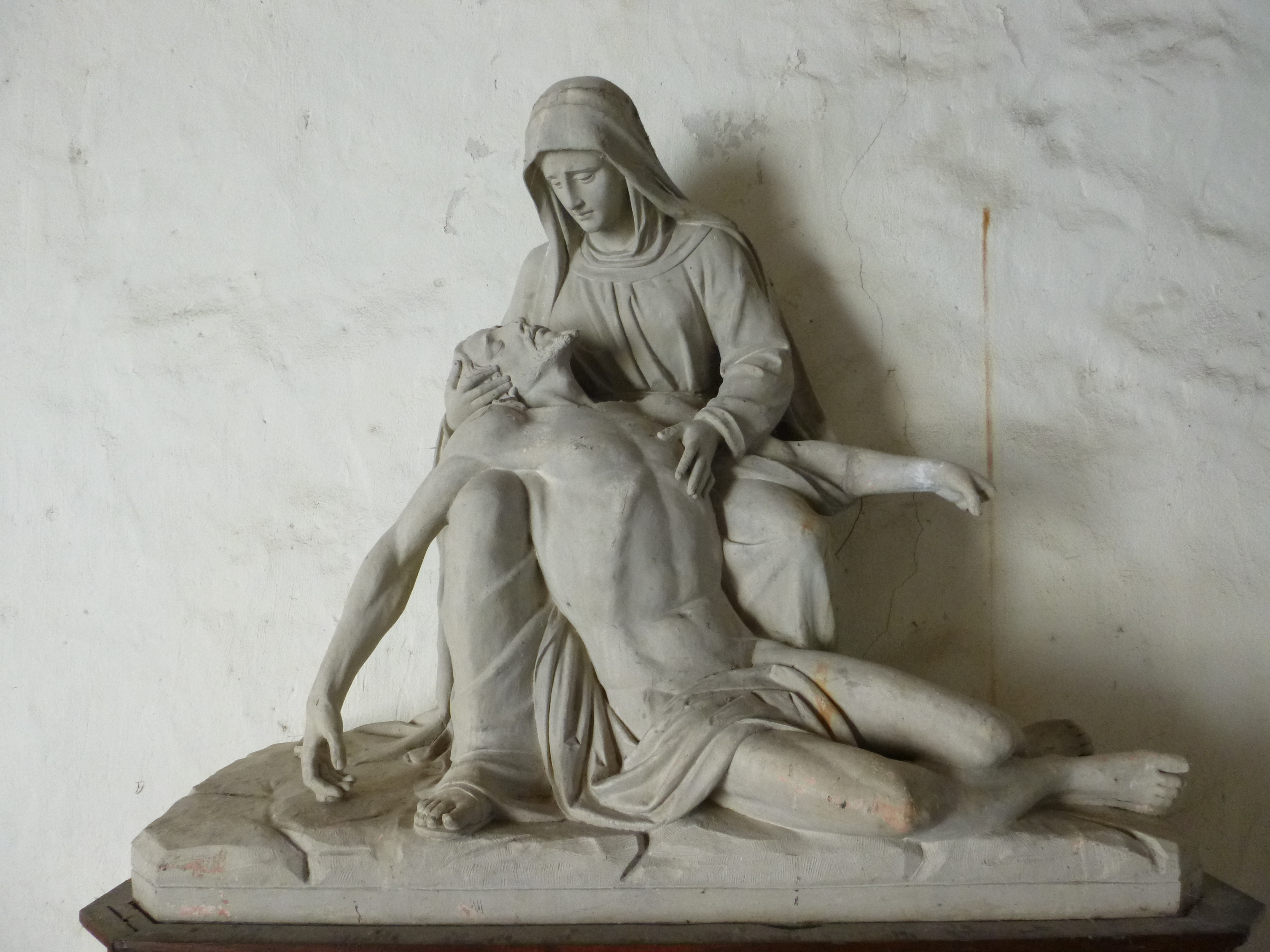 Pieta in church of Sare